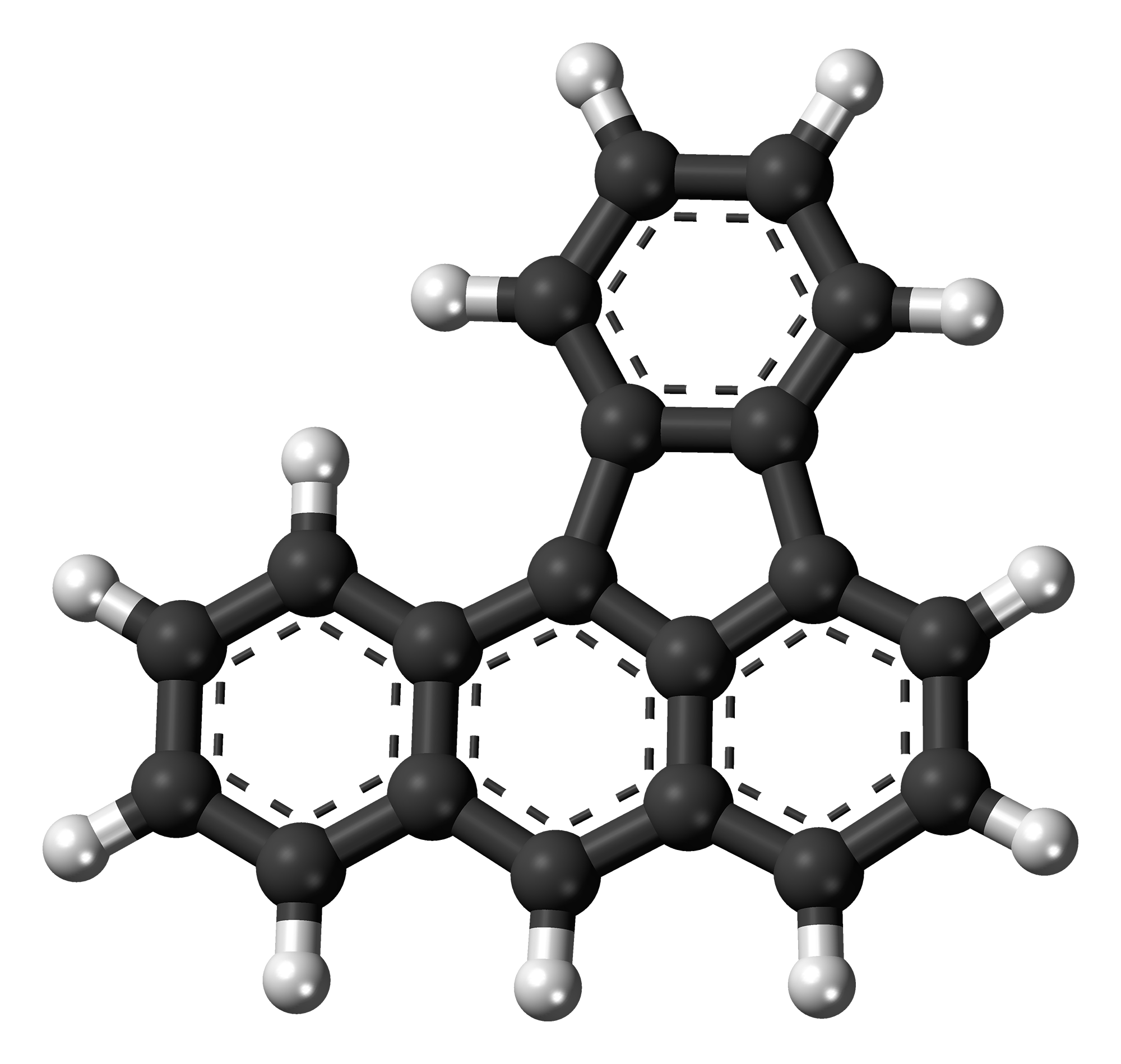 Ball-and-stick model of the benzo[a]fluoranthene molecule, a polycyclic aromatic hydrocarbon. Color code: Carbon, C: black Hydrogen, H: white